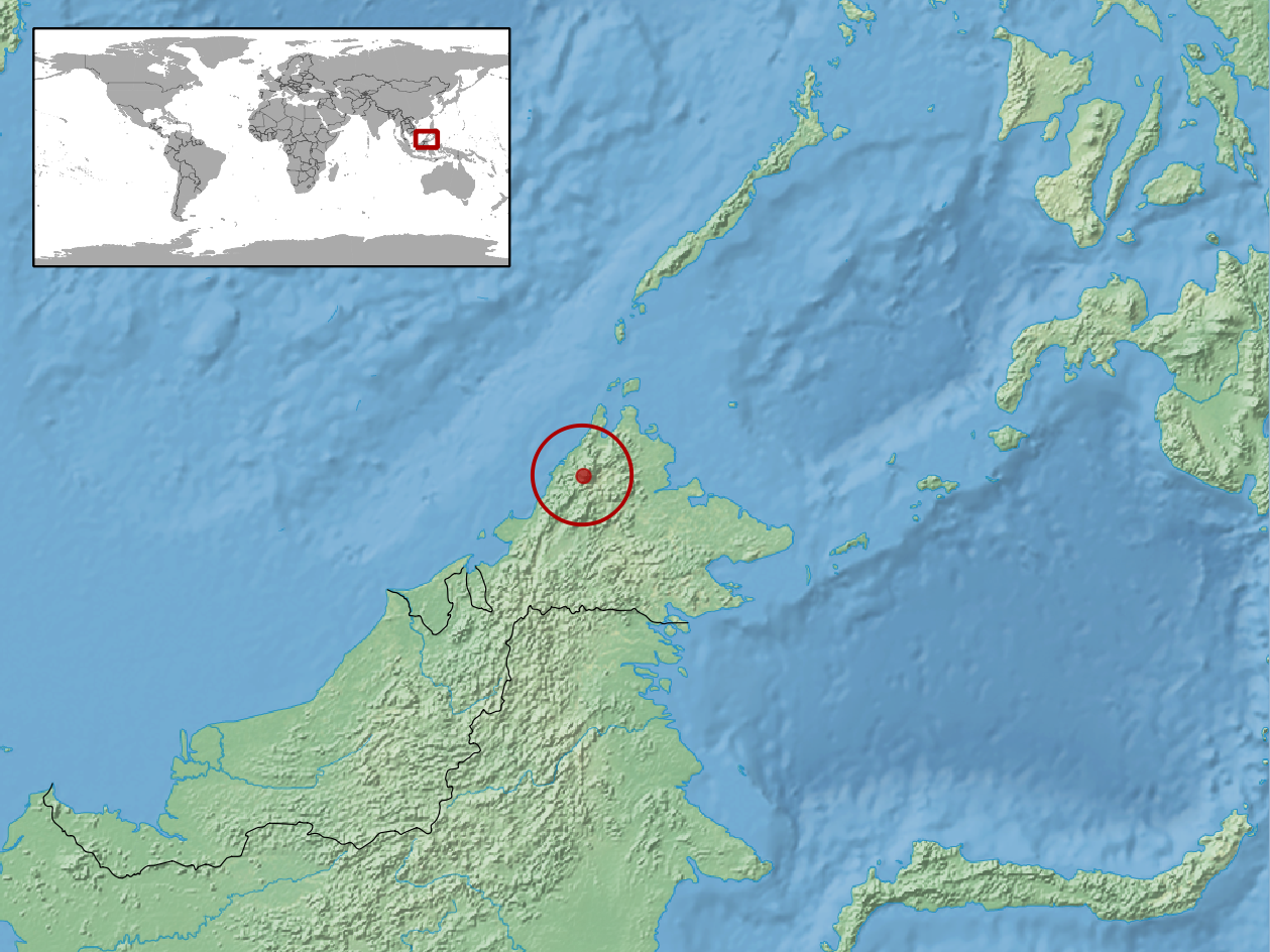 geographic distribution of Calamaria lateralis (Native: Indonesia; Malaysia (Sabah))